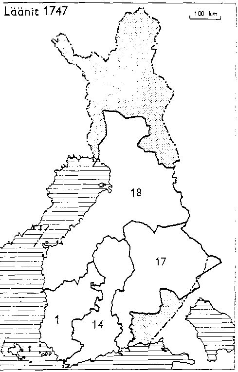 Finnish counties 1747 1 Åbo and Björneborg, 14 Nyland and Tavastehus, 17 Kymmenegård and Savolax, 18 Ostrobothnia